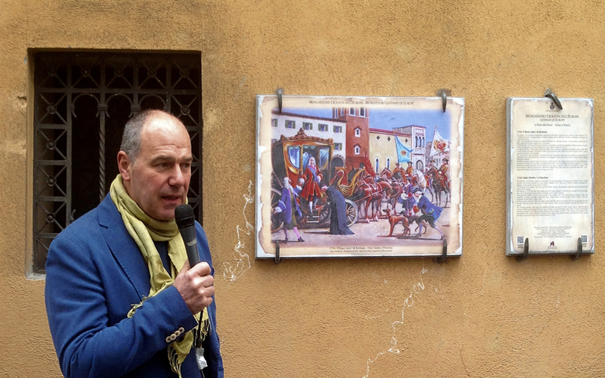 Giordano Berti 2014 Inauguration of the Stones of History in Monghidoro: "The arrive of the Duke Charles the First of Bourbon in 1734"